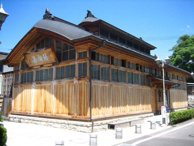 An exterior shot of the Sabakoyu public bath house in Iizaka-machi, Fukushima Prefecture, Japan. Picture was taken with a Canon Power Shot SD450 Digital Elph camera and modified using a Paint Shop program on a laptop computer.